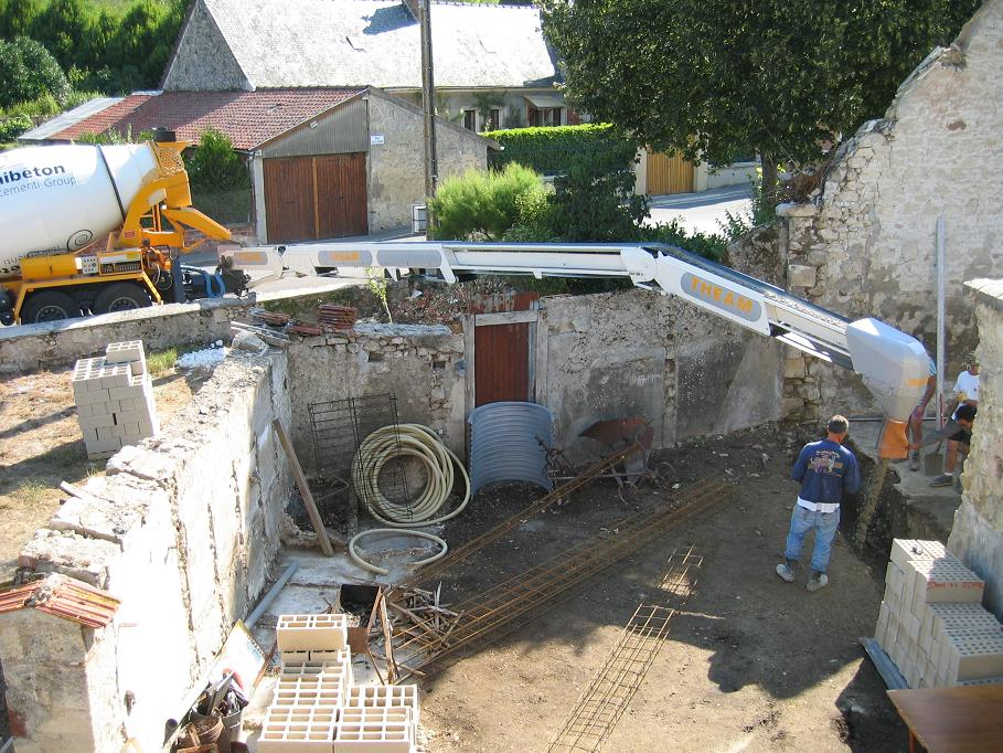 concrete delivering thanks to a conveyor belt